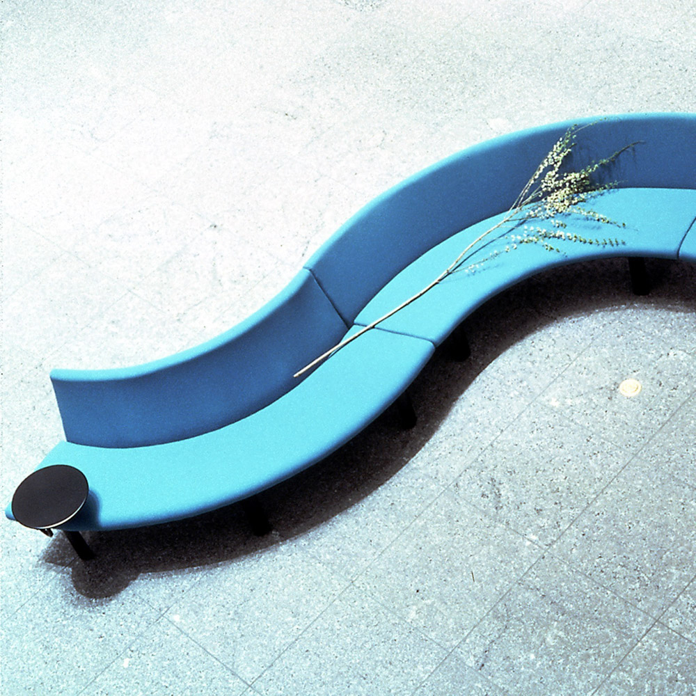 Works of KAWAKAMI Motomi 007-1991